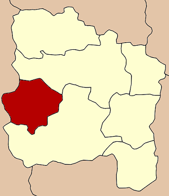 Map of Ang Thong province, Thailand, highlighting Amphoe Samko.